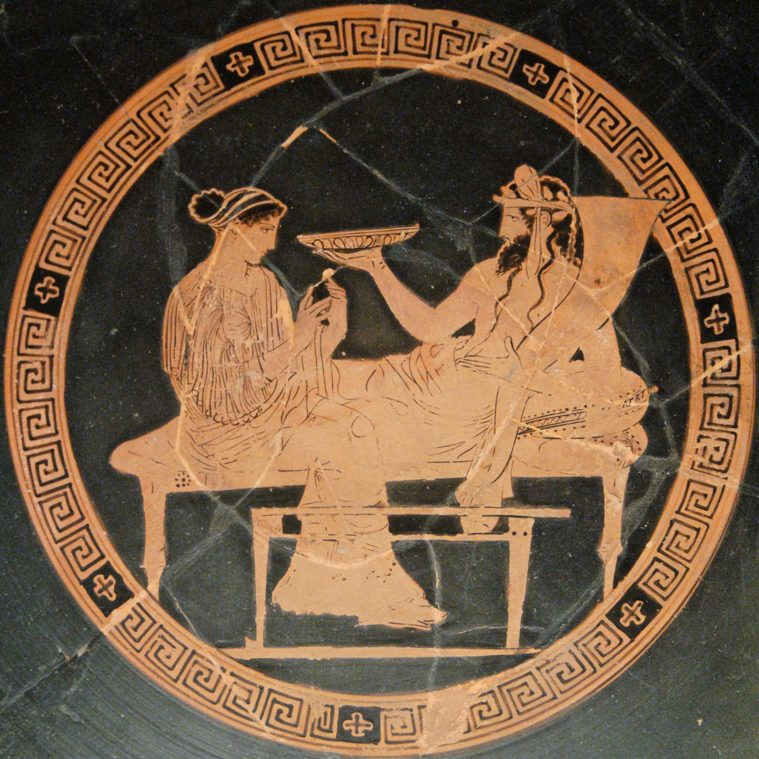 Persephone and Hades. Tondo of an Attic red-figured kylix, ca. 440-430 BC. Said to be from Vulci.